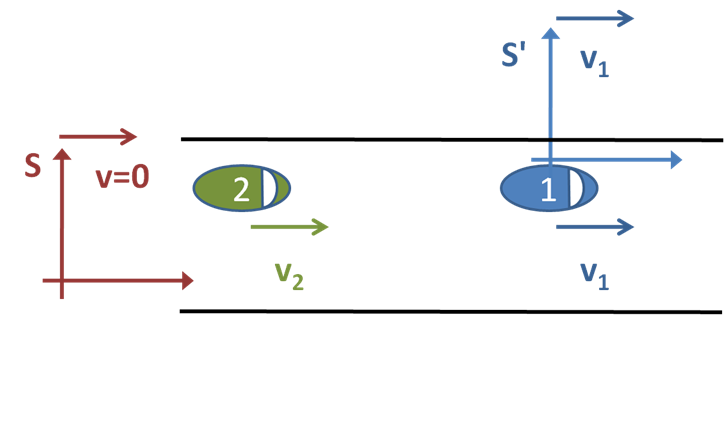 Two inertial frames translating each other